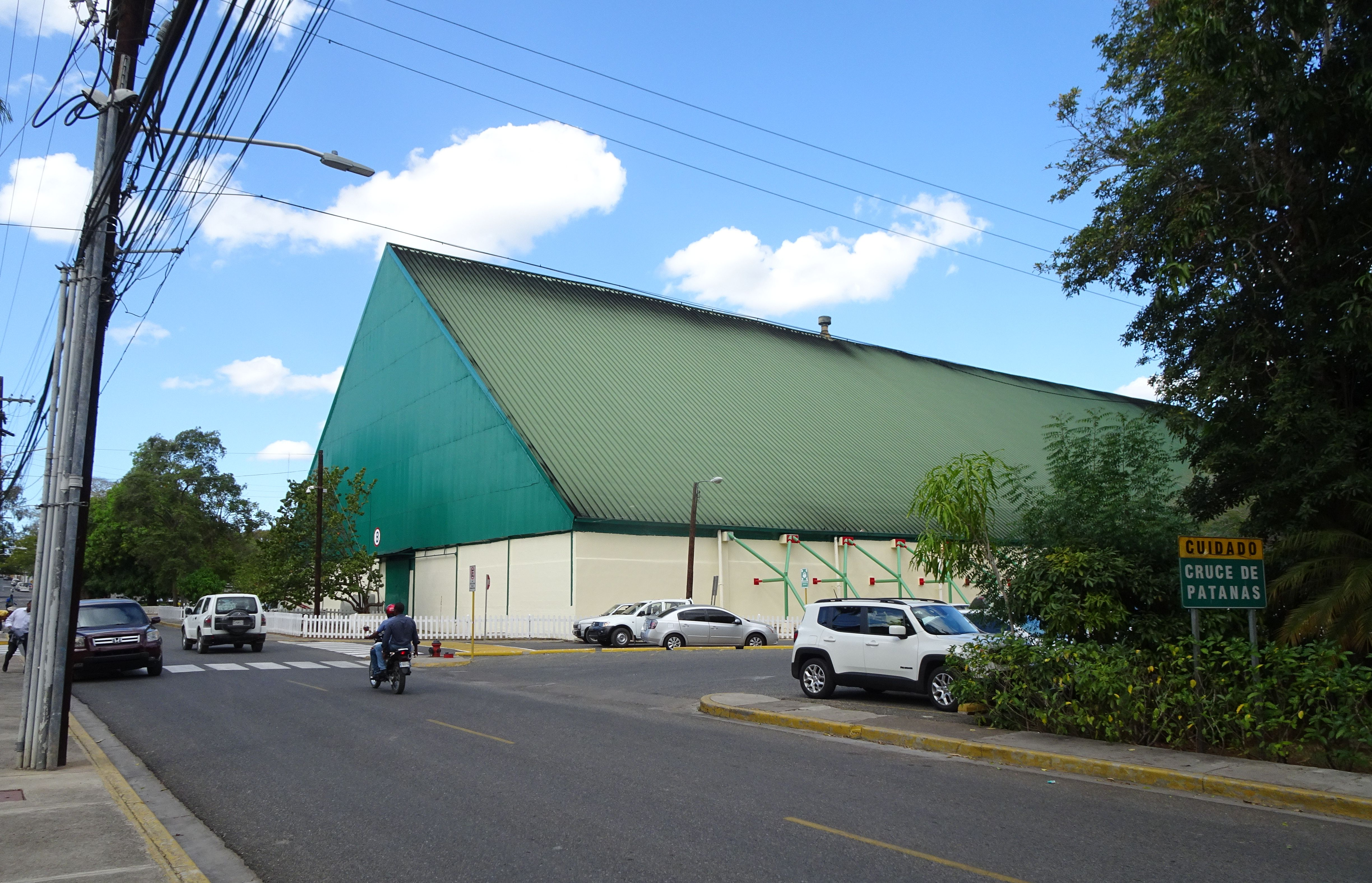 storage building nr. 8 in La Romana